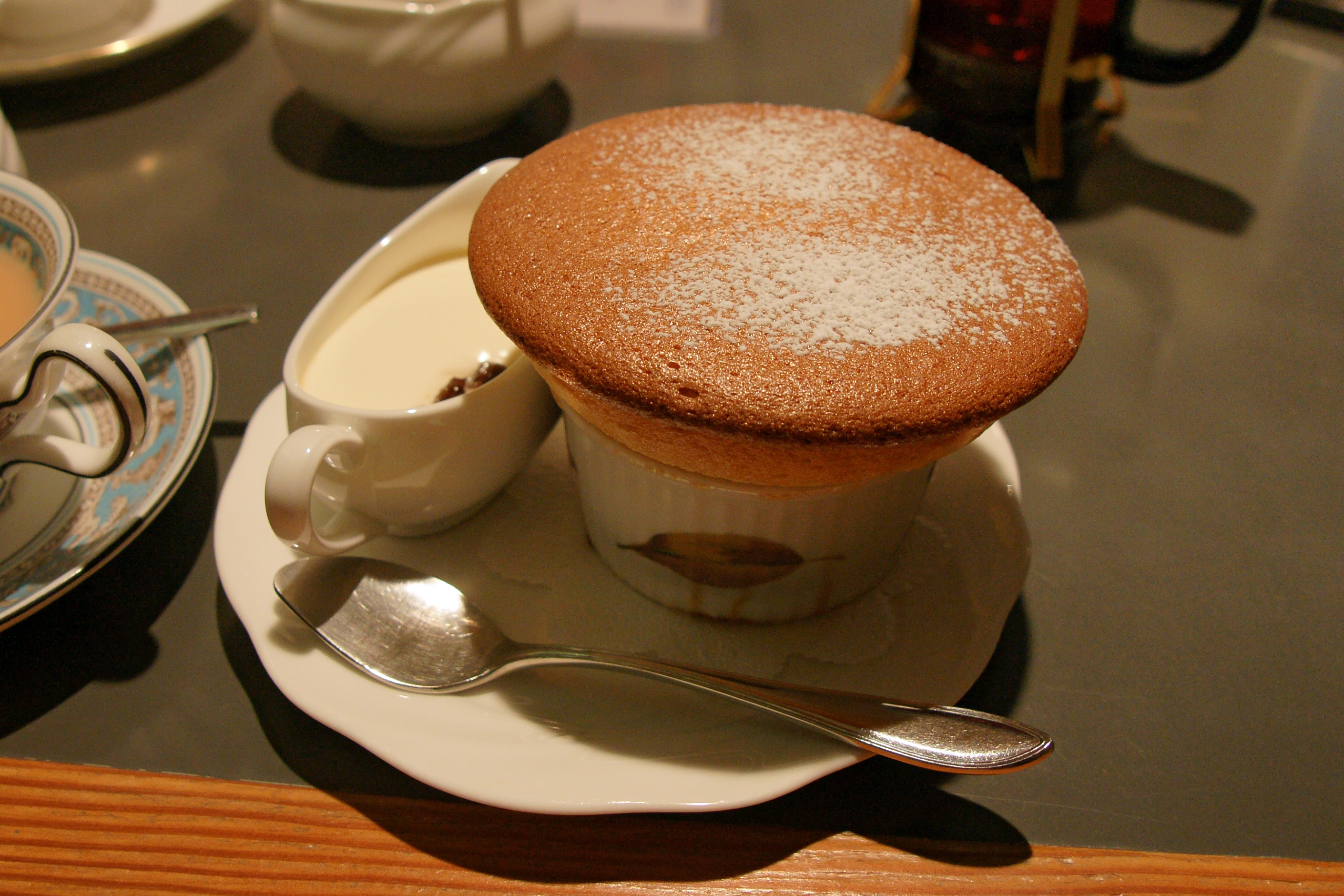 Soufflé at Higashiyama-ku, Kyoto, Kyoto Prefecture, Japan